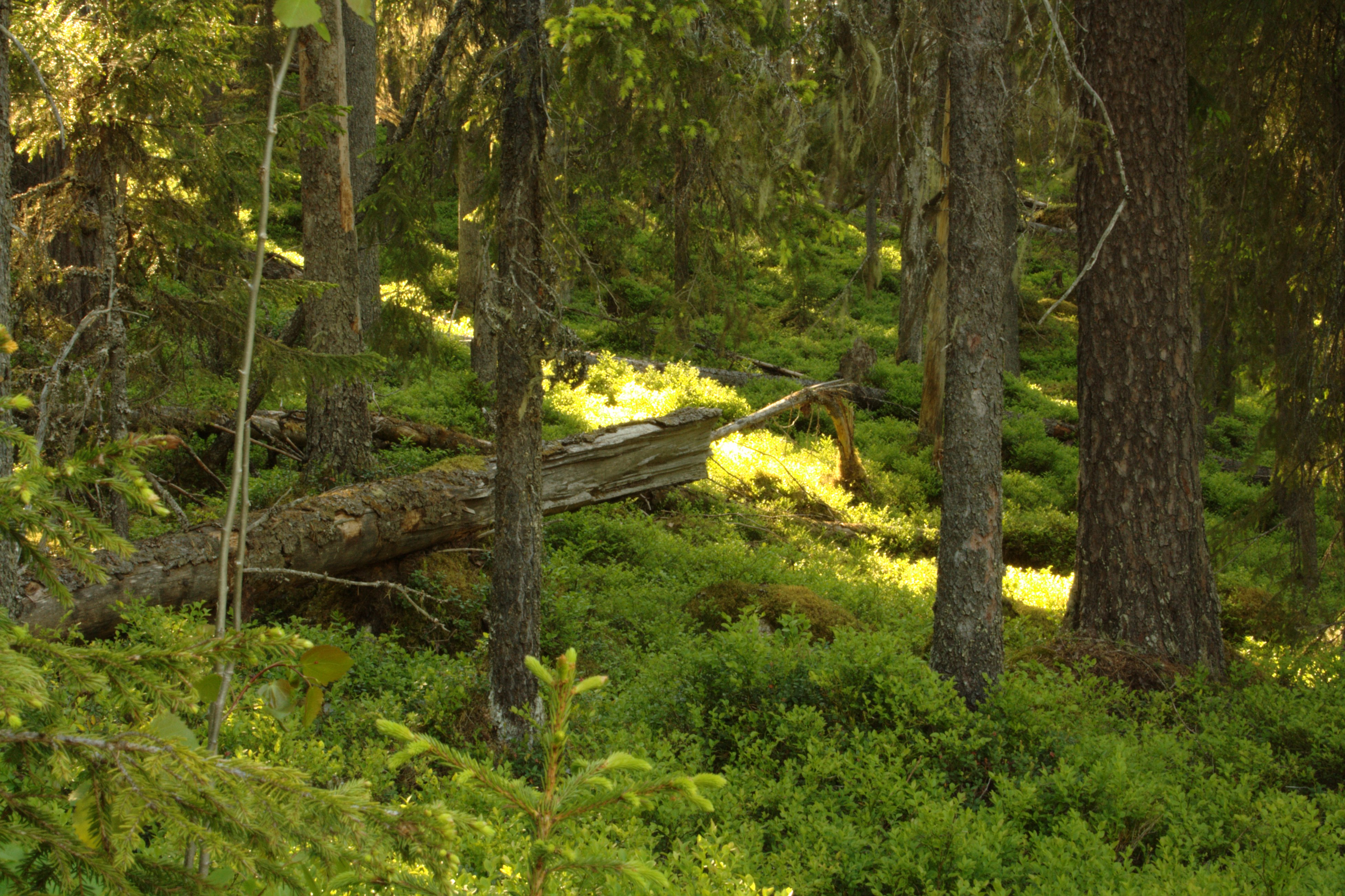 Tuggensele primeval forest